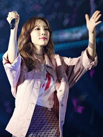 Kim Tae-yeon in Best of Best Concert on April 21, 2018.